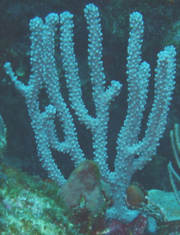 Sea Rods are common on both reefs especially deeper below the main surge.